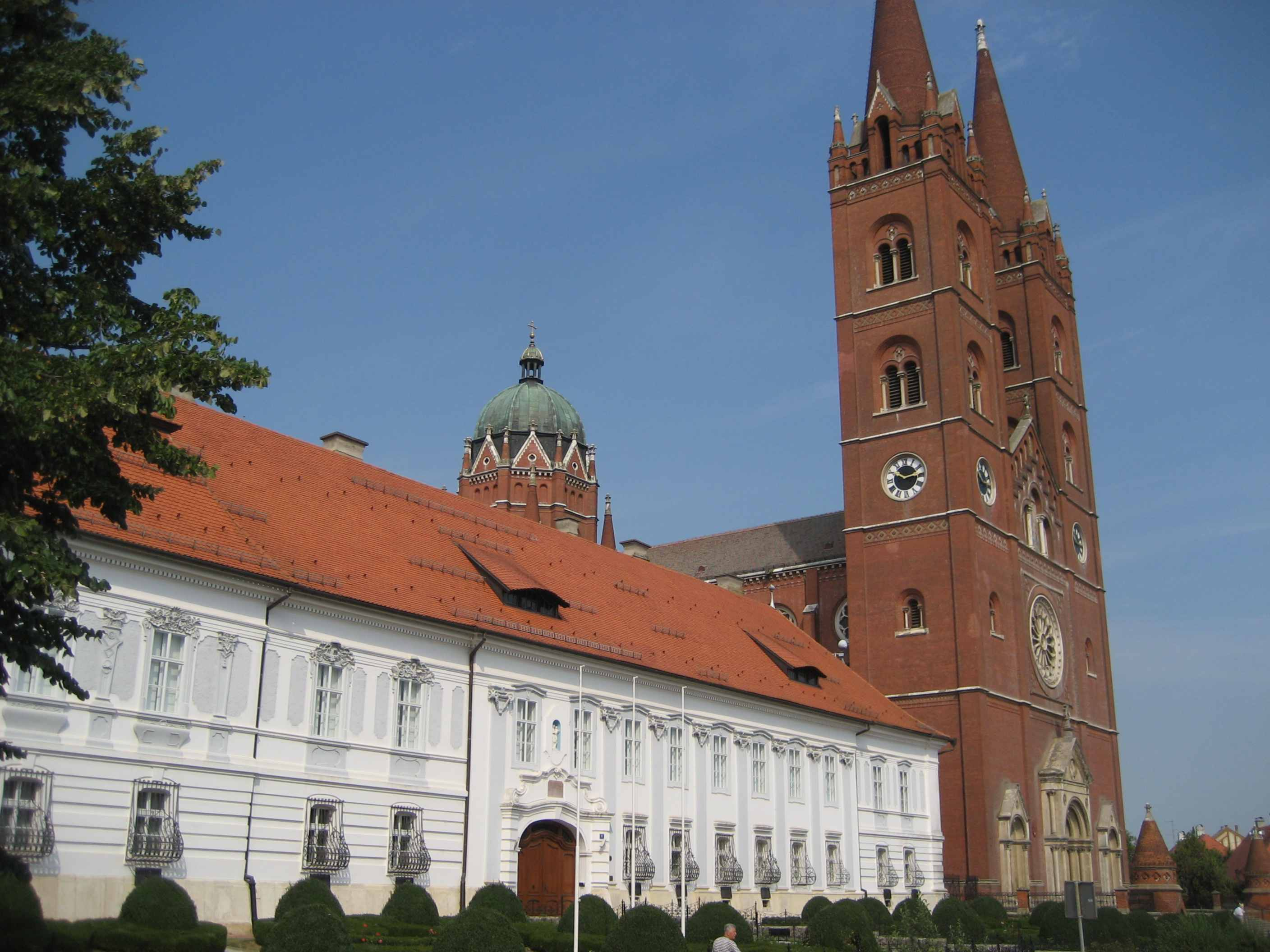 Cathedral_Dakovo,_Croatia